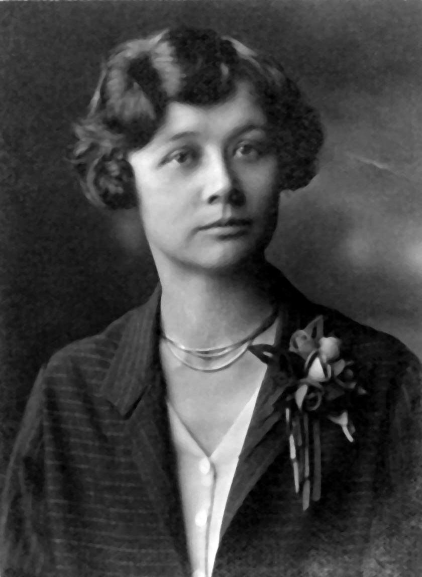 American nutritionist Mildred Lager